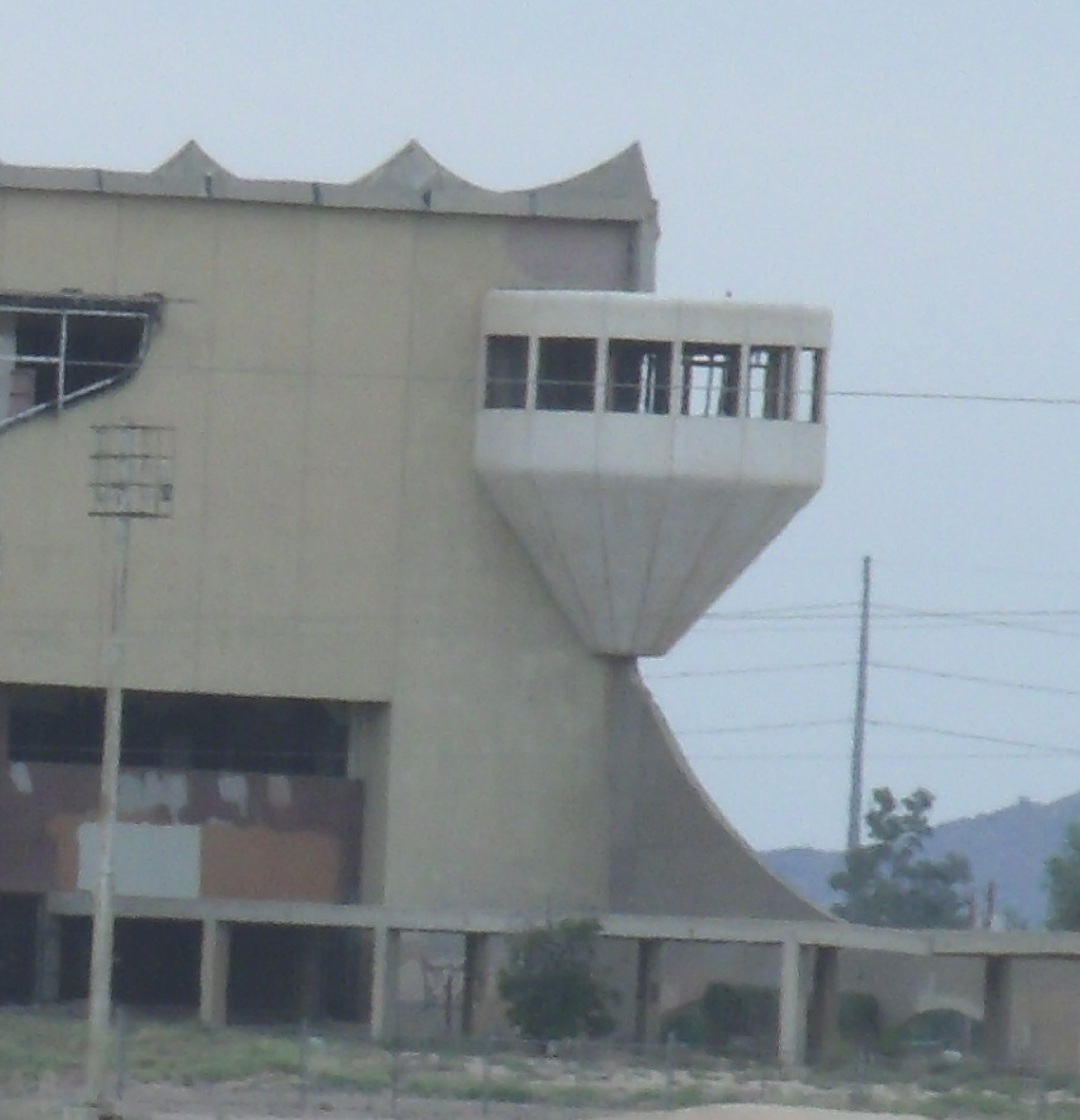 A close up view of a corner detail of a balcony of the Phoenix Trotting Park. The structure was built in 1965 and is located at 1068 N Cotton Lane in Goodyear, Arizona. The harness racing facility closed in December 1966. At about 20 miles from downtown Phoenix, the park's remote location was a major factor in the low rates of attendance.